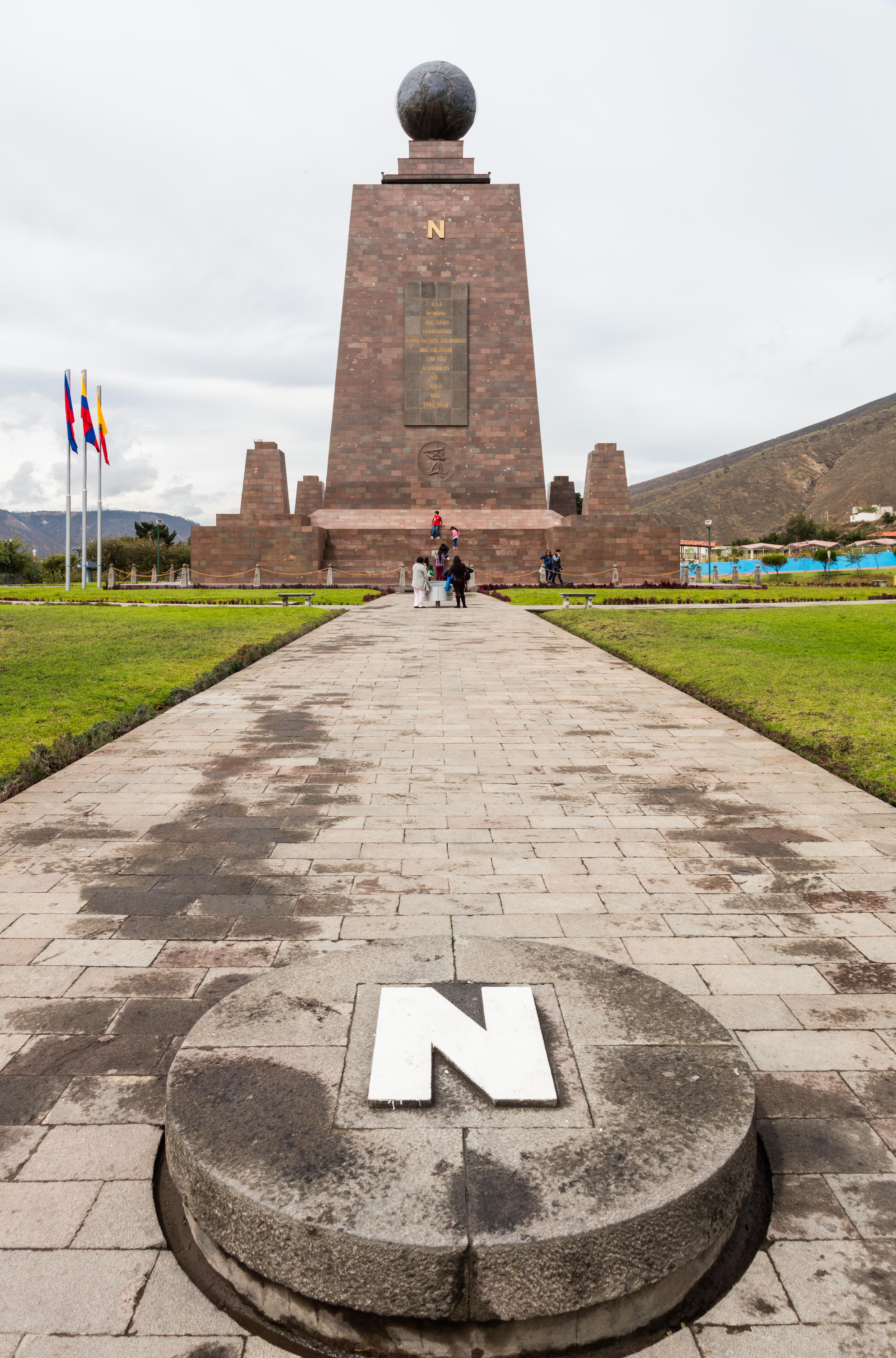 Mitad del Mundo, Quito, Ecuador